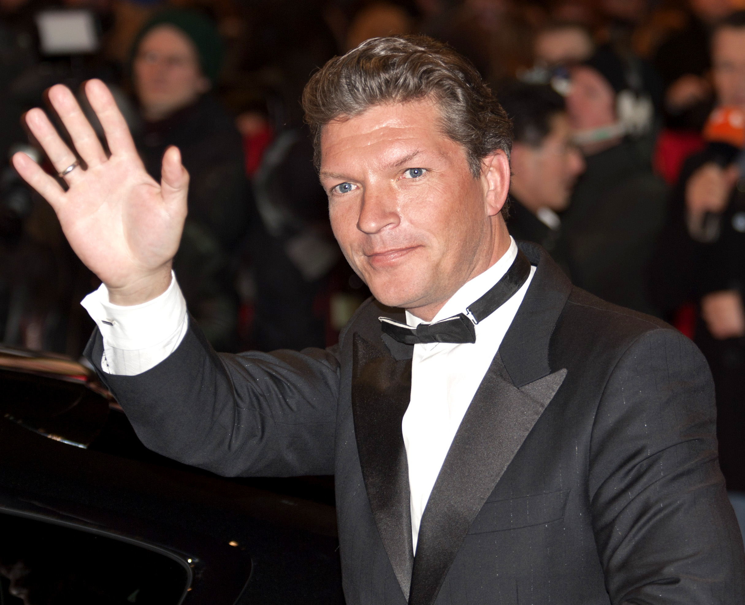 German actor Hardy Krüger junior, son of Hardy Krüger, at the premiere of True Grit during the Berlin Film Festival 2011